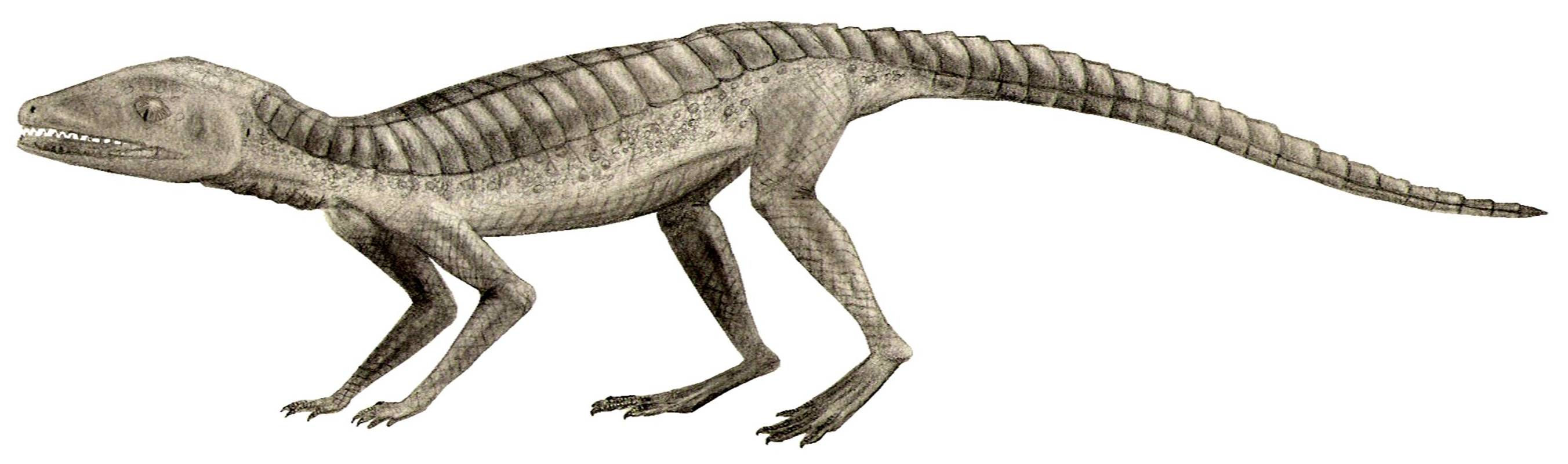 Life restoration of Hoplosuchus kayi